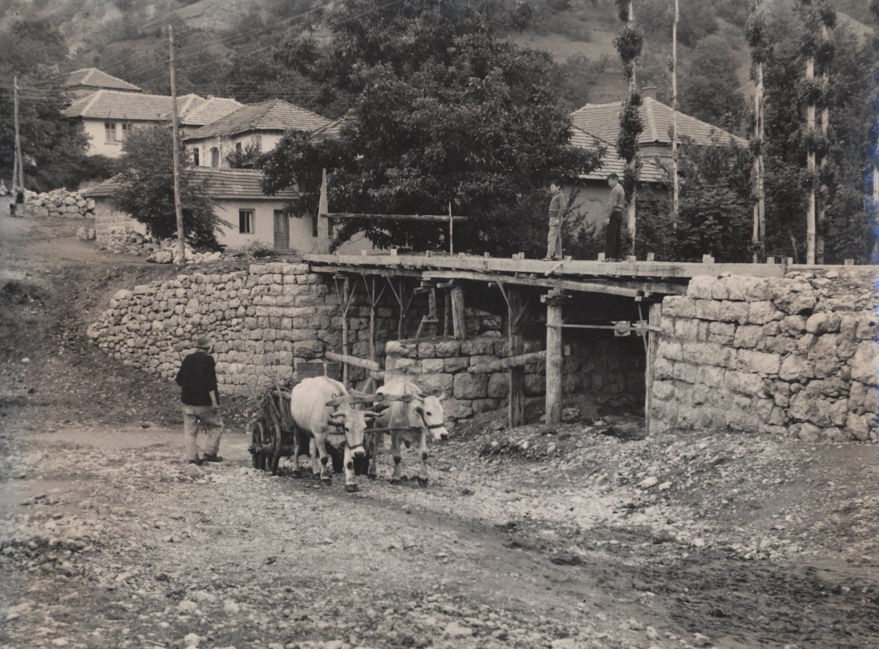 Bridge in the village Gradasnica in 1962.